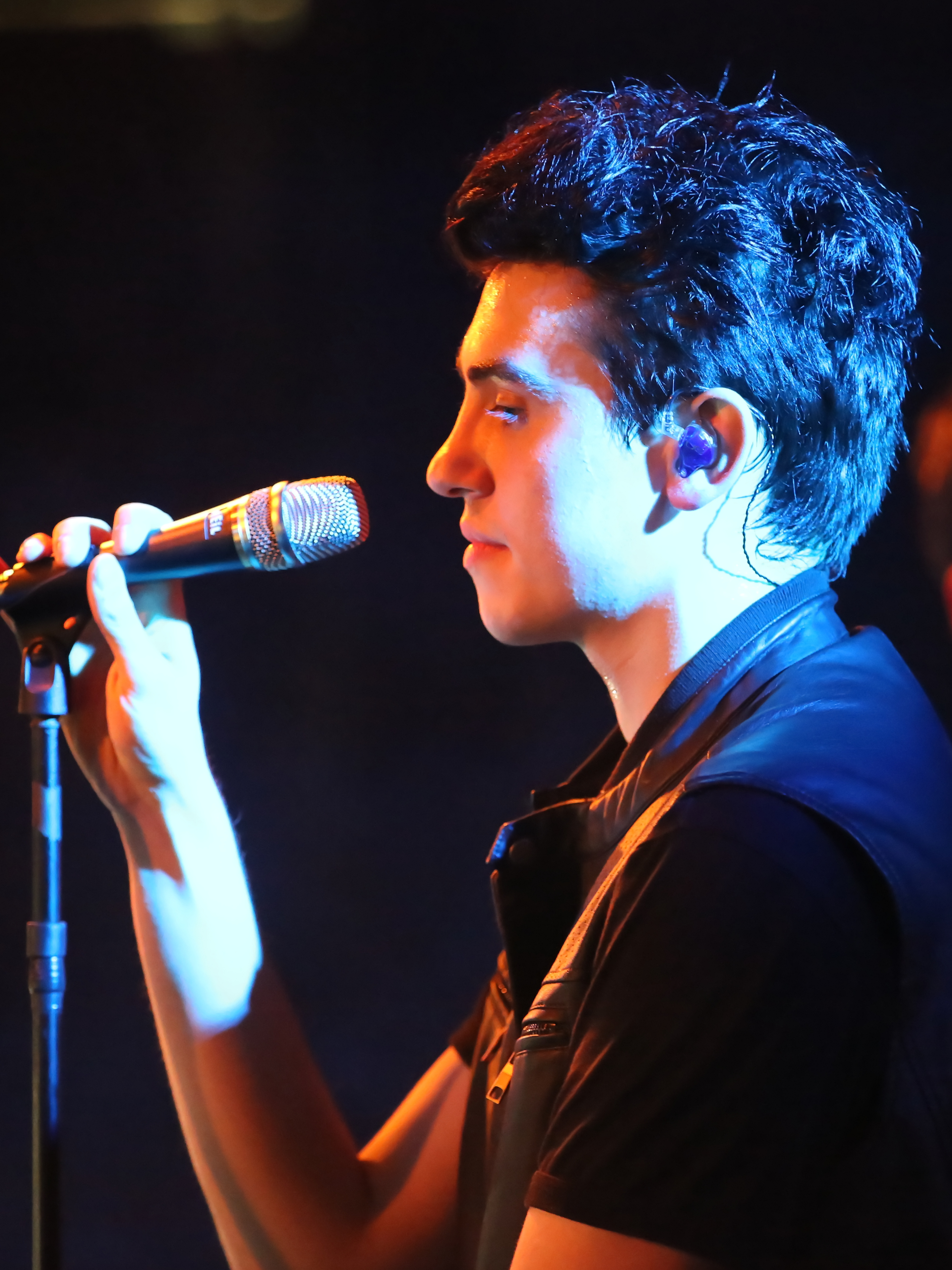 Michele Bravi live at New Age Club in Roncade on the 13th March, 2016